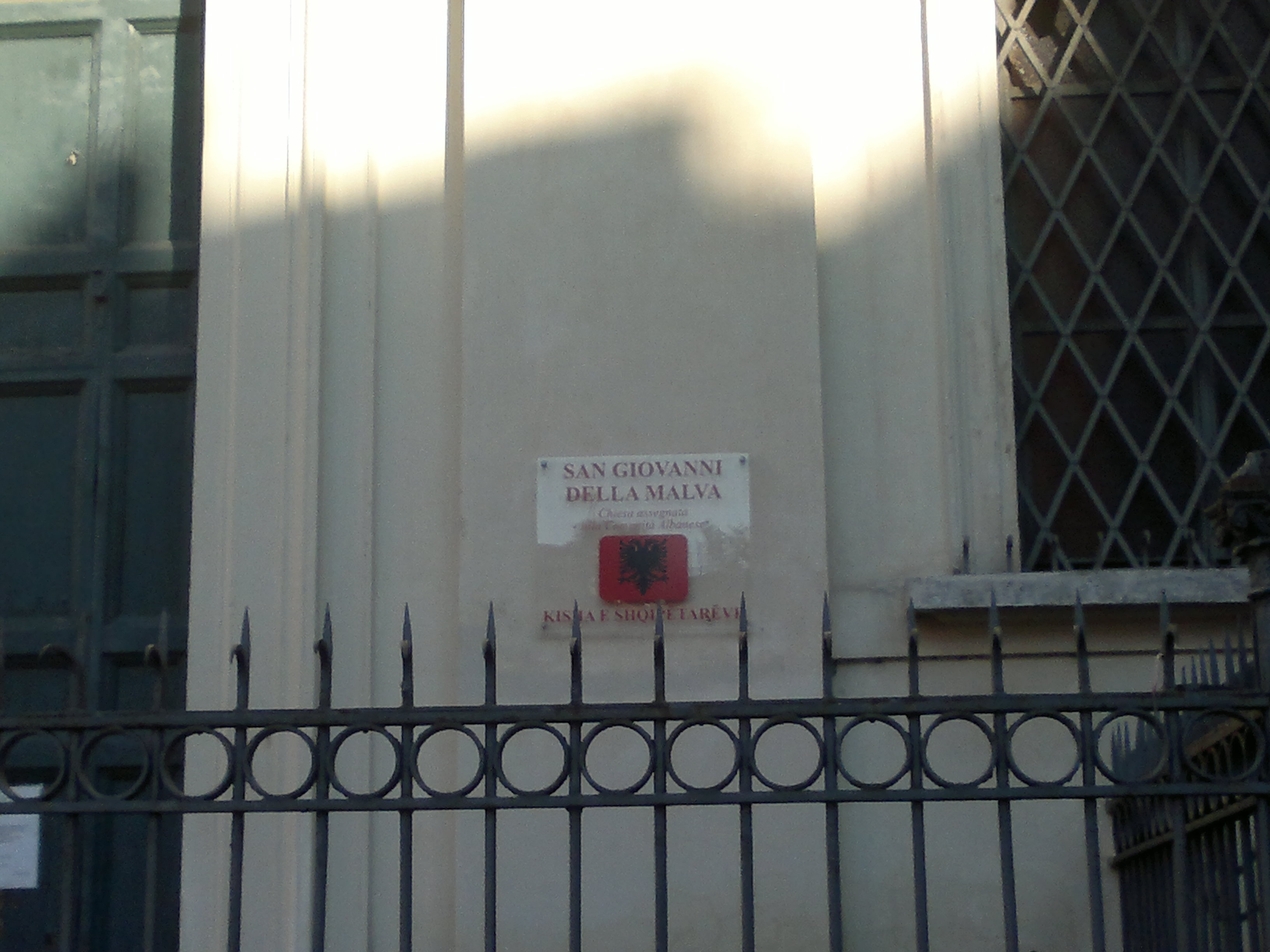 Albanian religious object in Rome